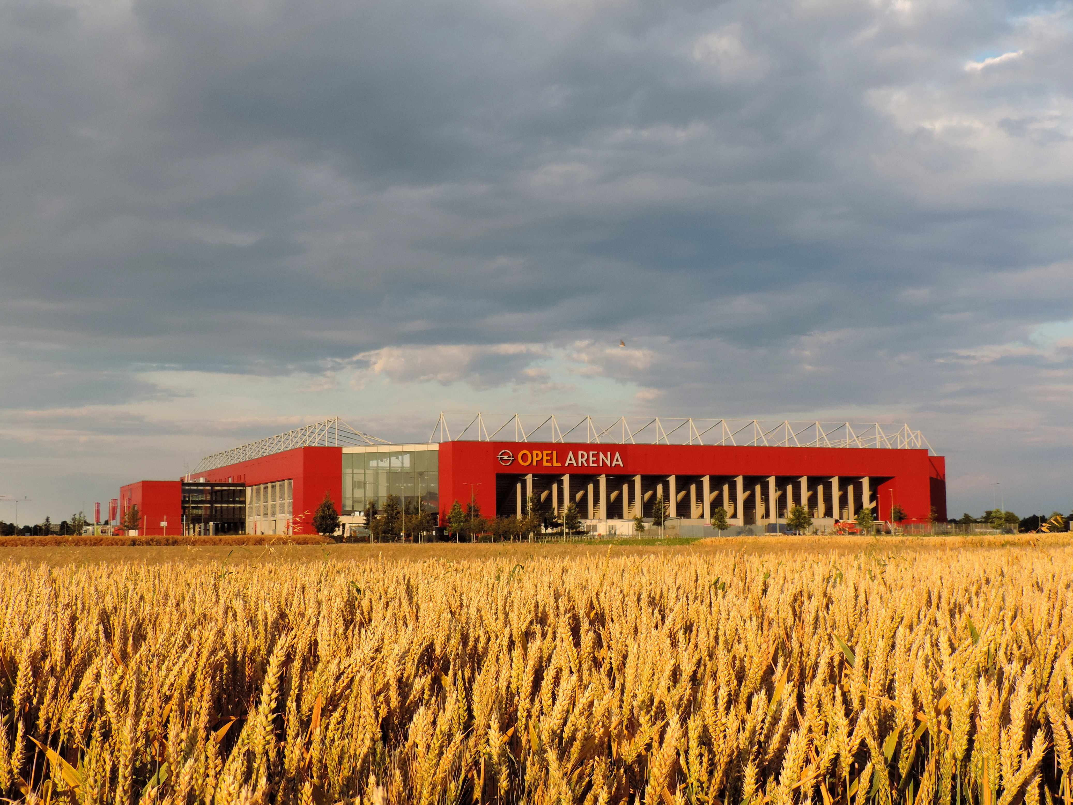 Opel Arena, new sponsor name